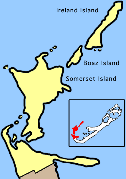 Map of Bermuda showing Sandys parish.